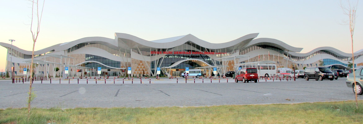 Airport Sivas Nuri Demirdağ, Turkey